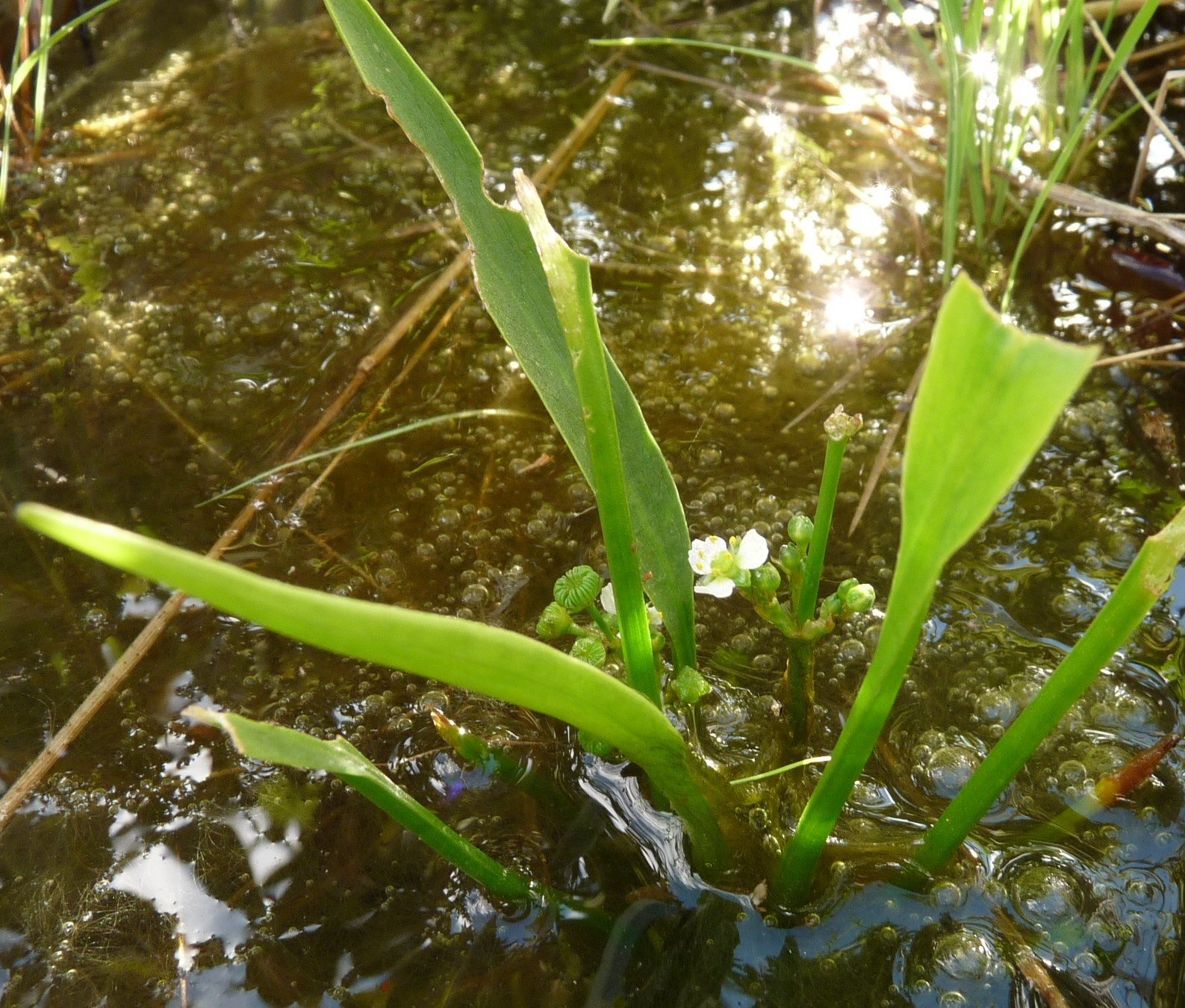 Alisma canaliculatum var. azuminoense